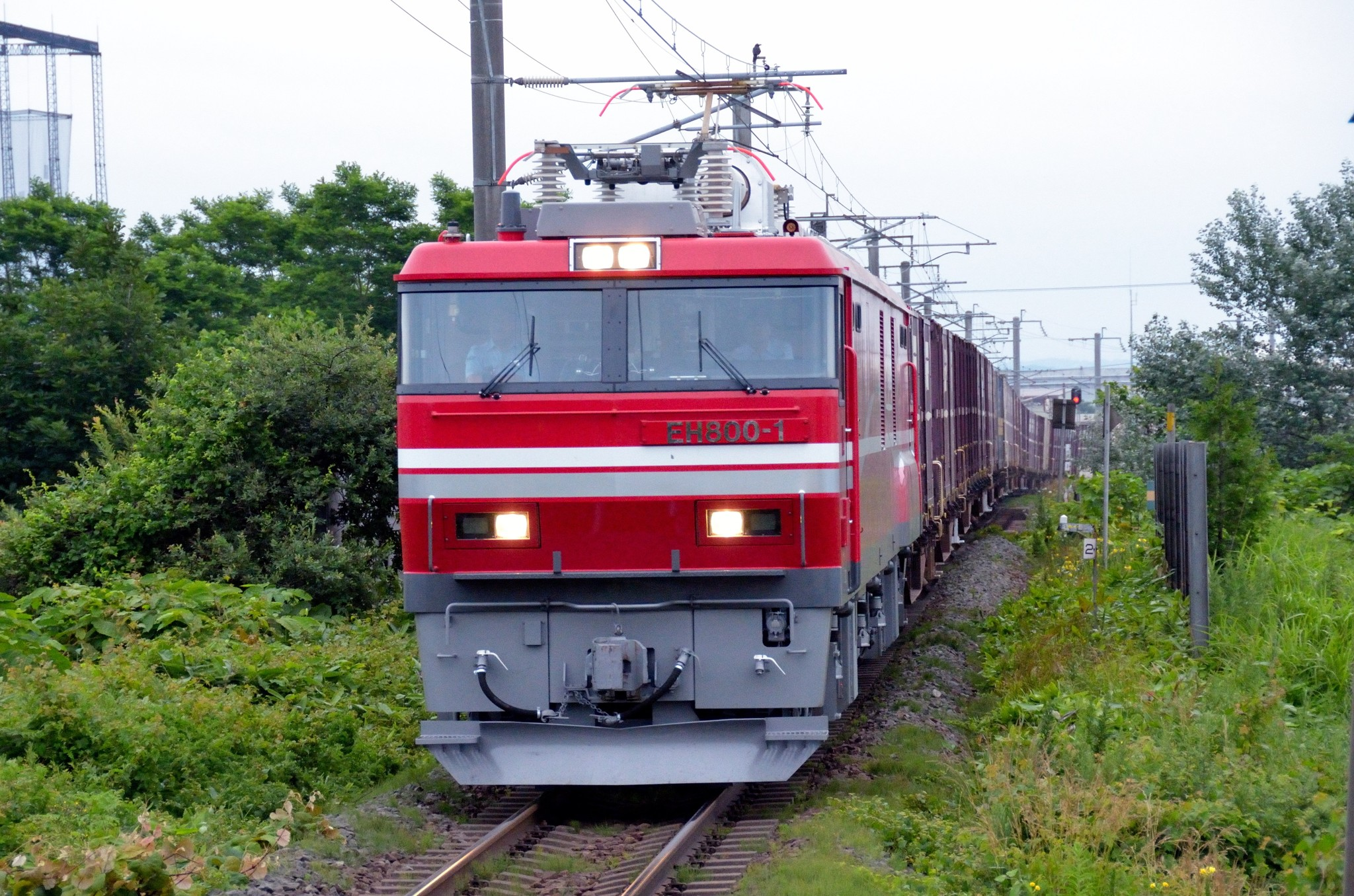 JR Freight Class EH800 electric locomotive EH800-1 approaching Higashi-Kunebetsu Station on freight service No. 4094